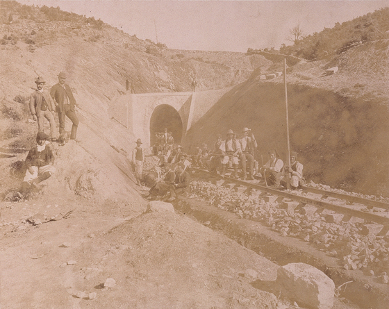 Work in progress for the Meana Sardo tunnel in the Isili-Sorgono railway, in Sardinia, Italy